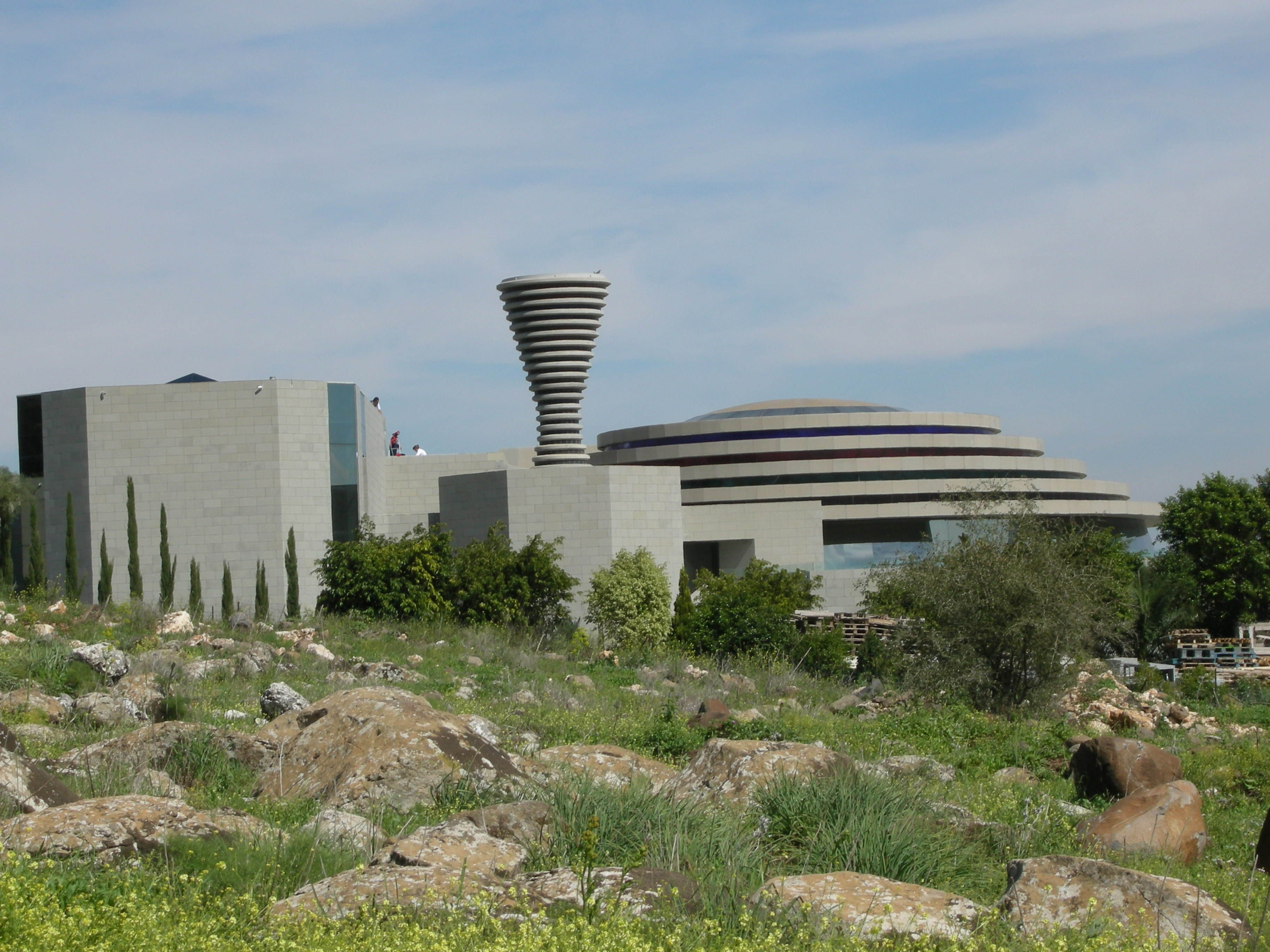 Bloom In Vered Hagalil